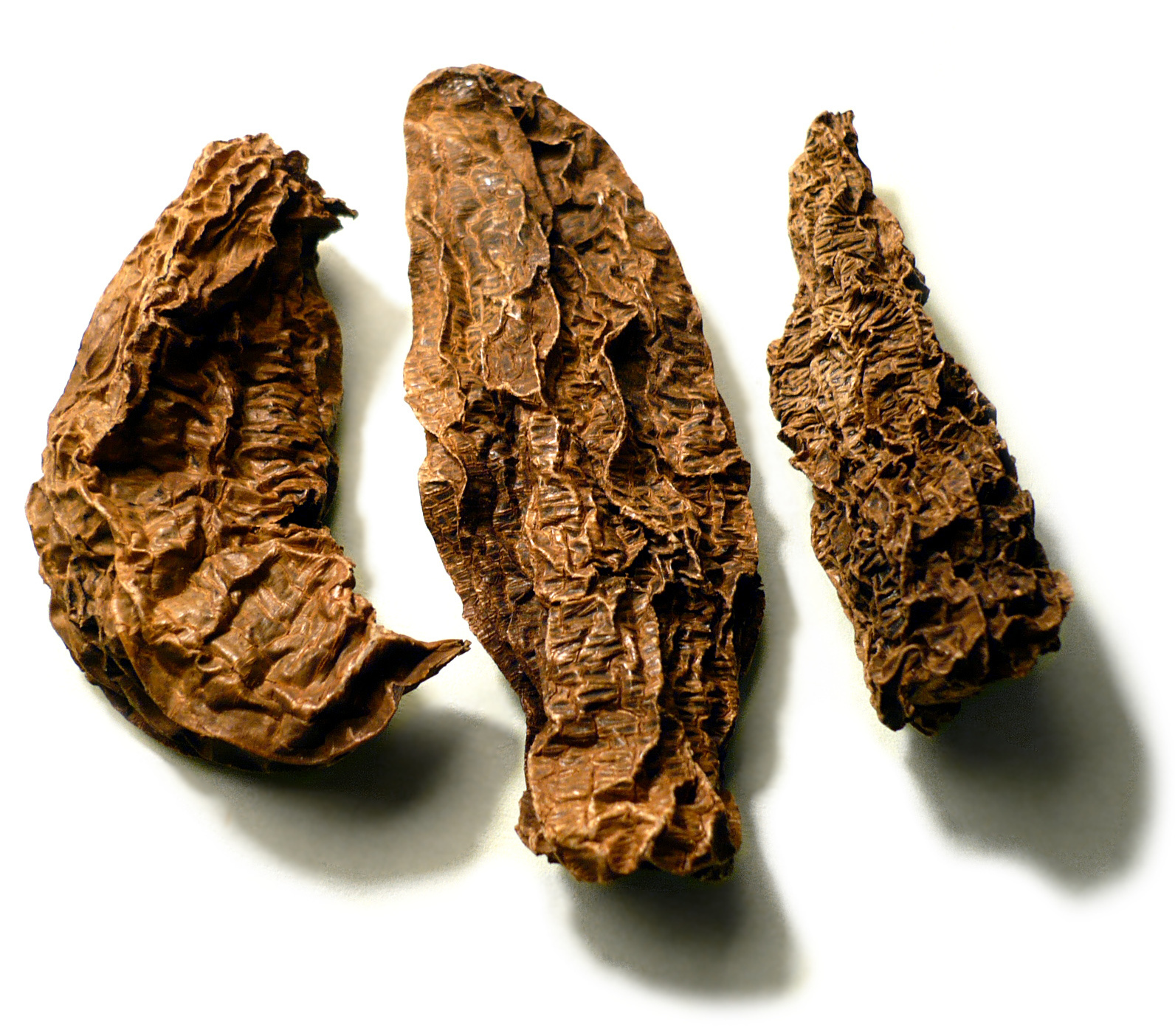 Dried chipotle chili peppers (tipico variety, also called chile meco or chile ahumado). Photo taken in Kent, Ohio with a Panasonic Lumix digital camera (model DMC-LS75). Dried chipotle chili peppers purchased from a northeast Ohio-area Mexican grocery store.